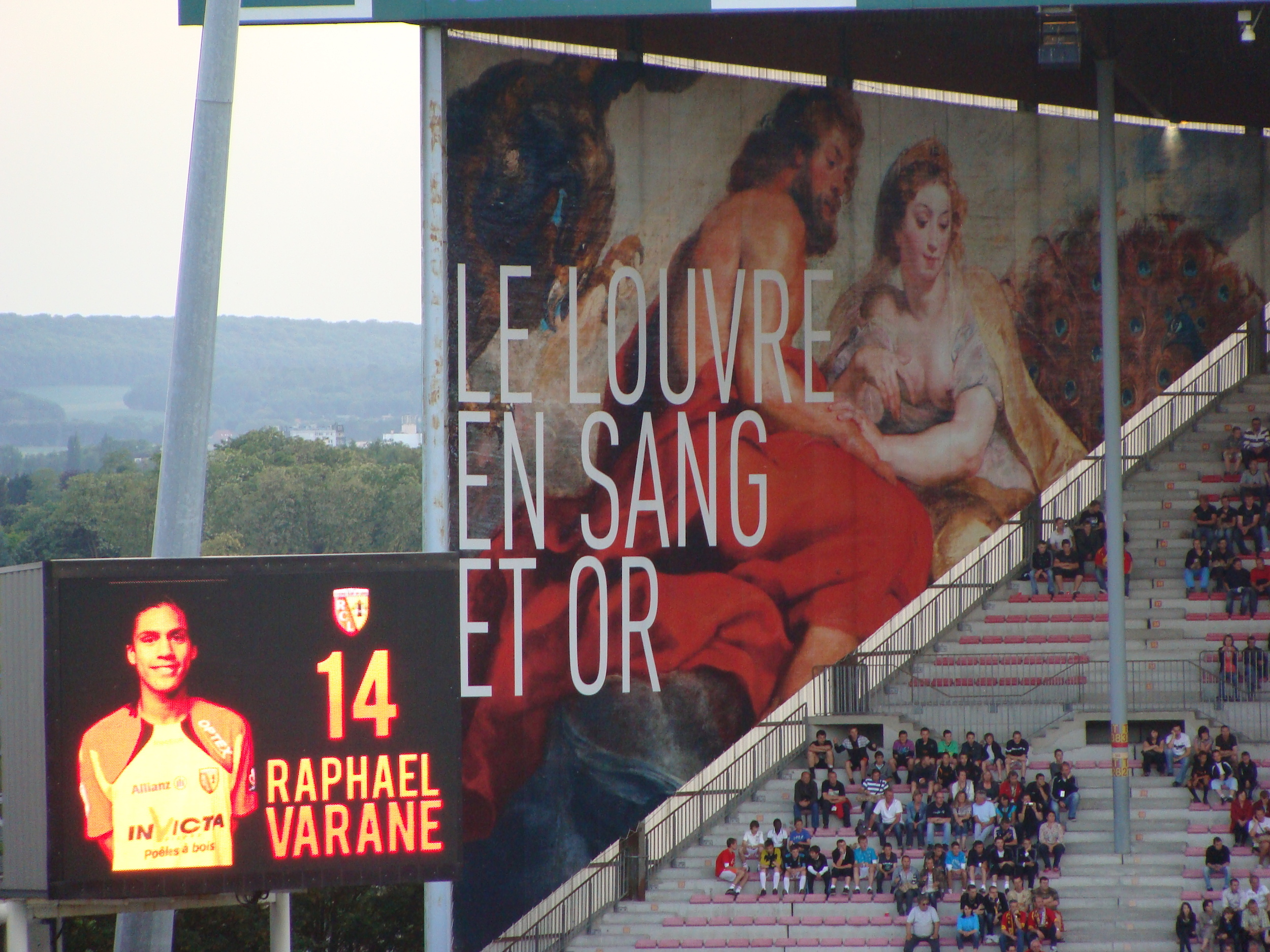 Varane RC Lens captain